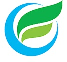 Emblem of Fujimino, Saitama